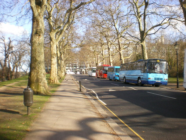 Carriage Drive North, Battersea park